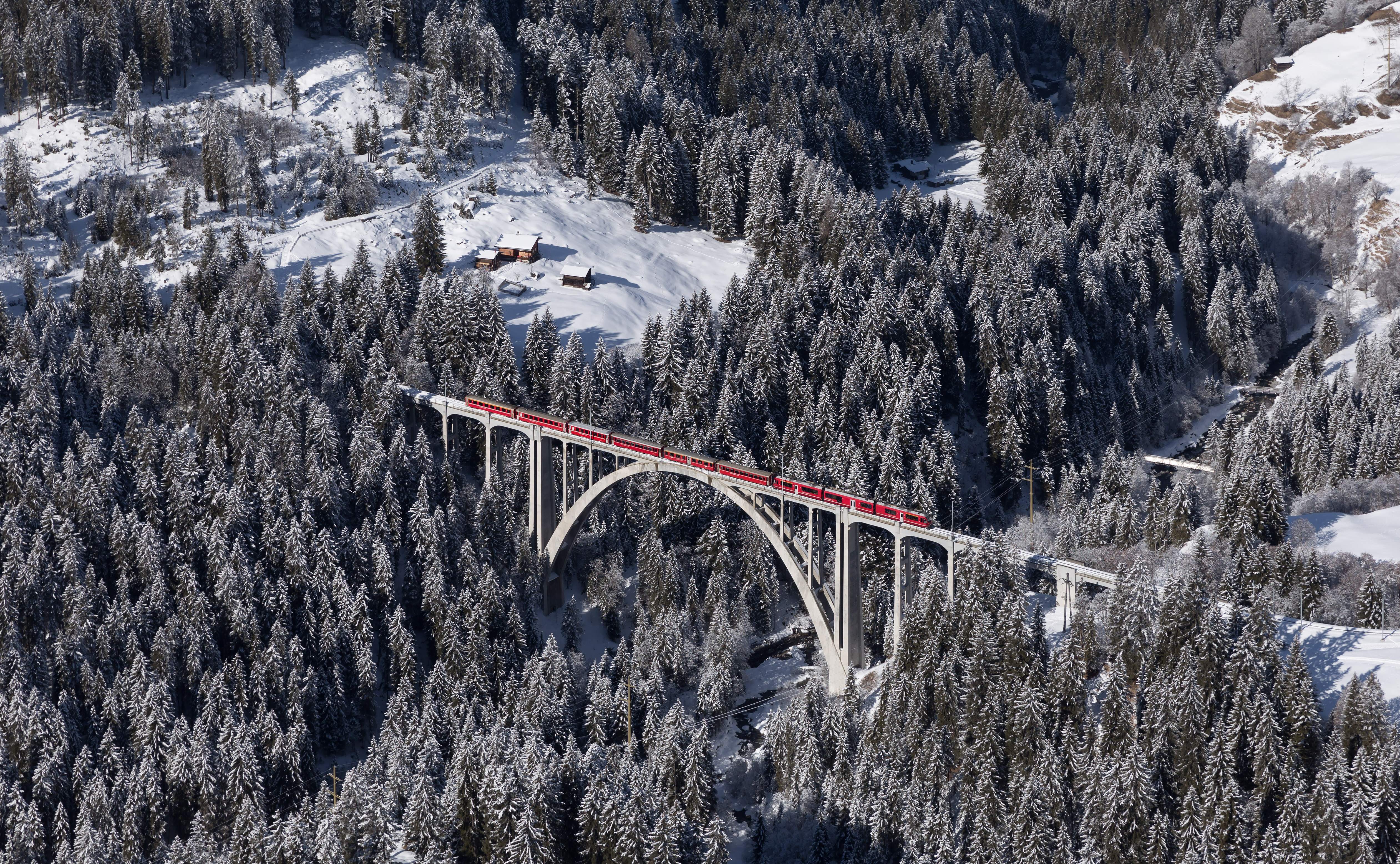 An ABe 8/12 "Allegra" unit crosses the Langwieser Viaduct with a local train from Arosa to Chur, Switzerland.